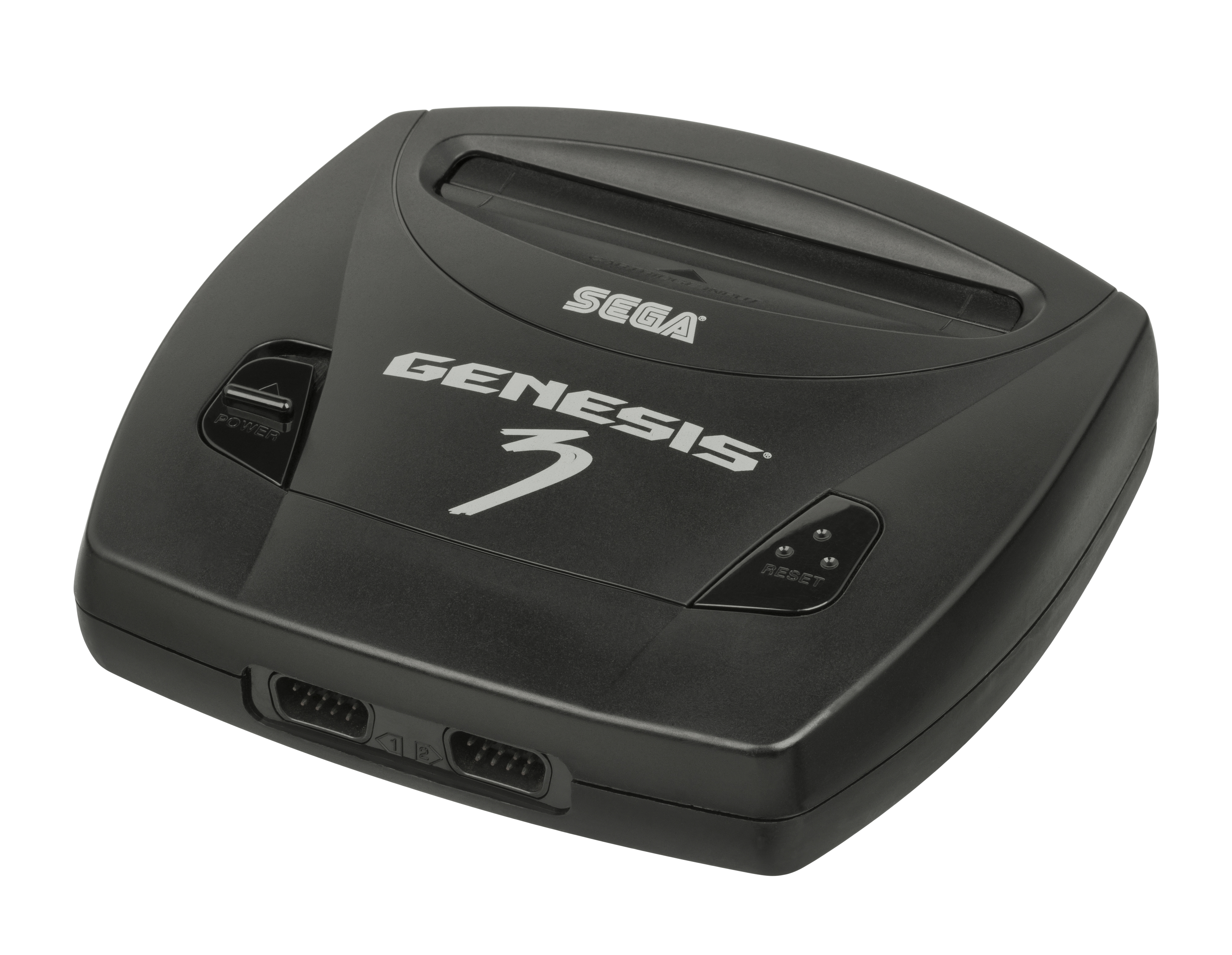 A Sega Genesis 3 console, a stripped down version that was released as a budget model in 1998. Made by Majesco Entertainment, this model was very small and removed features like an LED light and the expansion port to keep costs down.